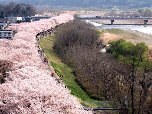 Sakura along the tamagawa in Fussa, Japan.